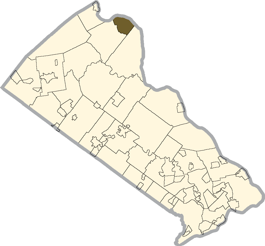 Bridgeton Township shaded on the map of Bucks county, PA.